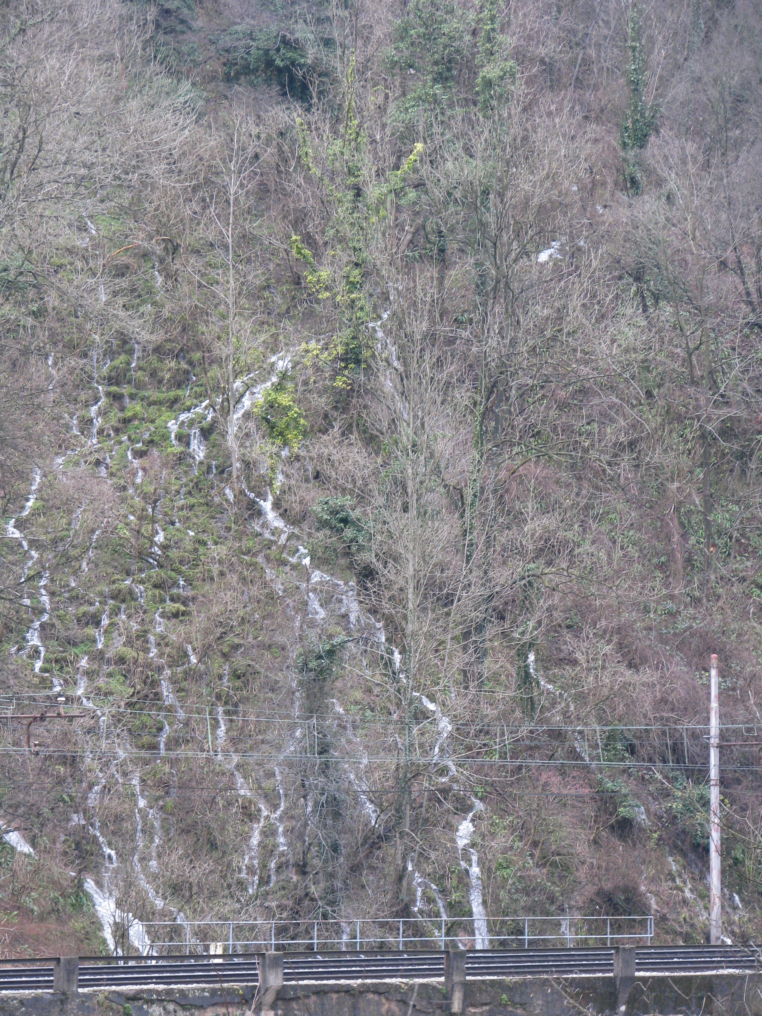 Torrent at the left bank of the Sava river above the railway line Ljubljana-Zidani Most, near Zagorje ob Savi, Slovenia, after a heavy rain.